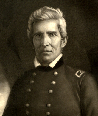 General William Orlando Butler